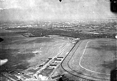 Pole Mokotowskie przed wojna.